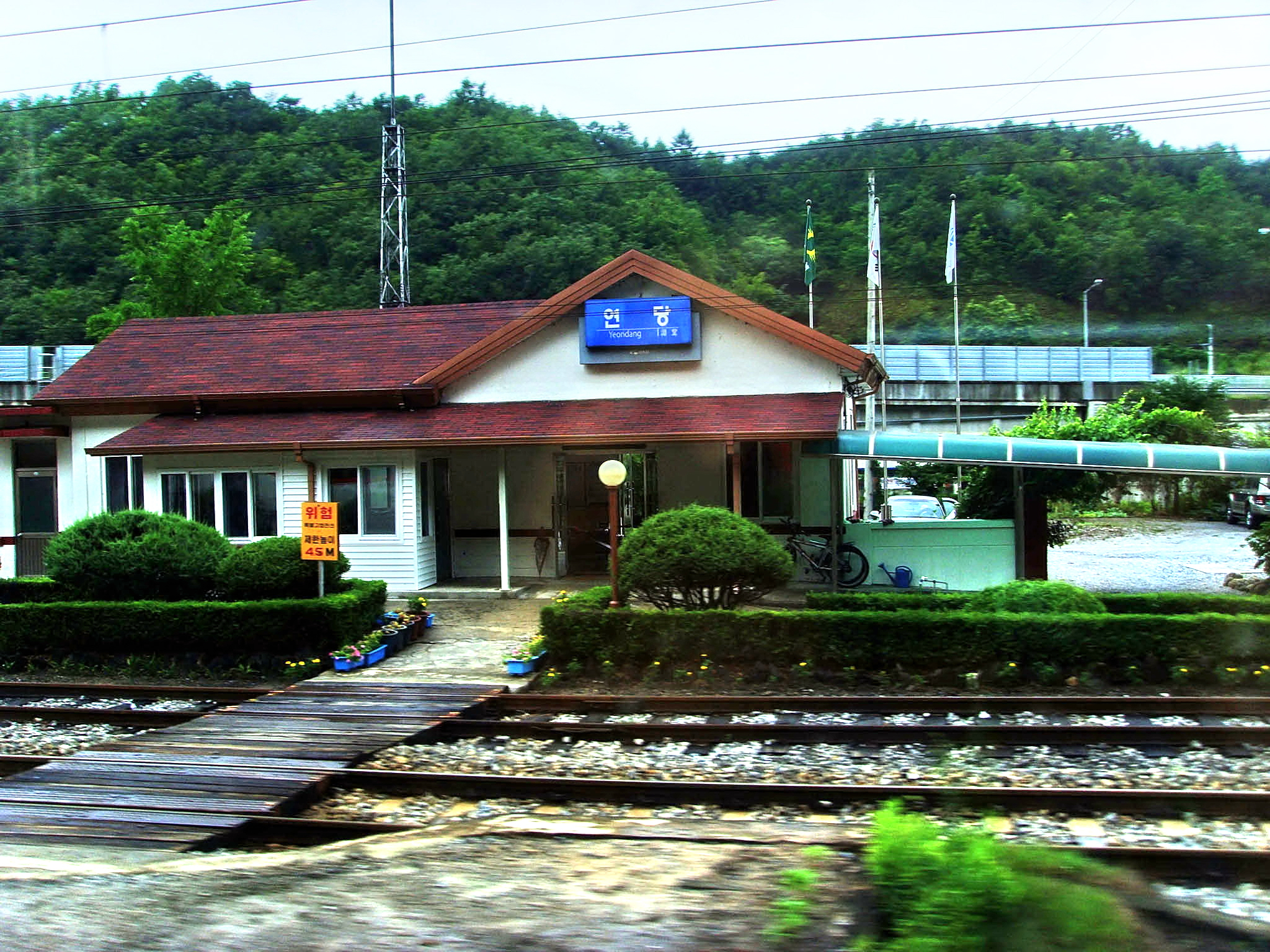 Taebaek Line Yeondang Station